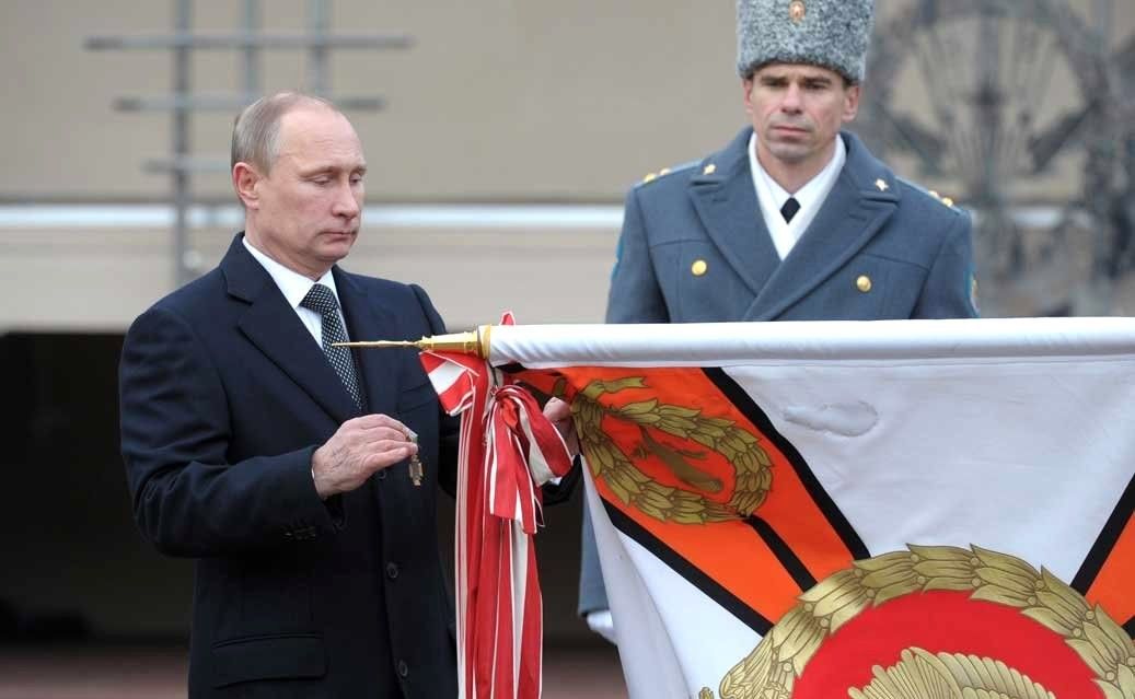 Vladimir Putin decorated the Ryazan Higher Airborne Command School with the Order of Suvorov, fixing the order to the banner. 15 Nov 2013.